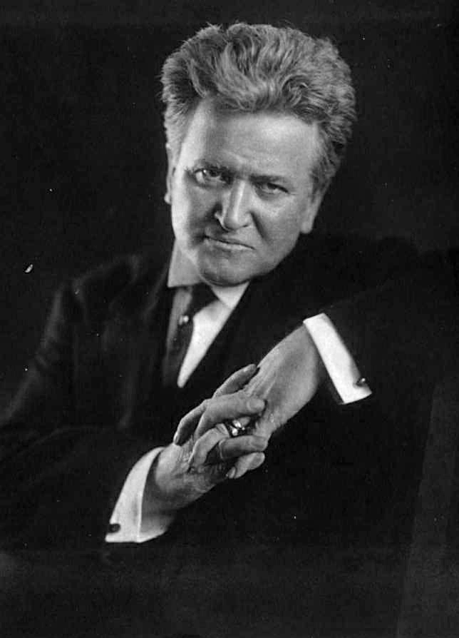 CREATED/PUBLISHED: c1911 July 12. NOTES: J157502 U.S. Copyright Office.